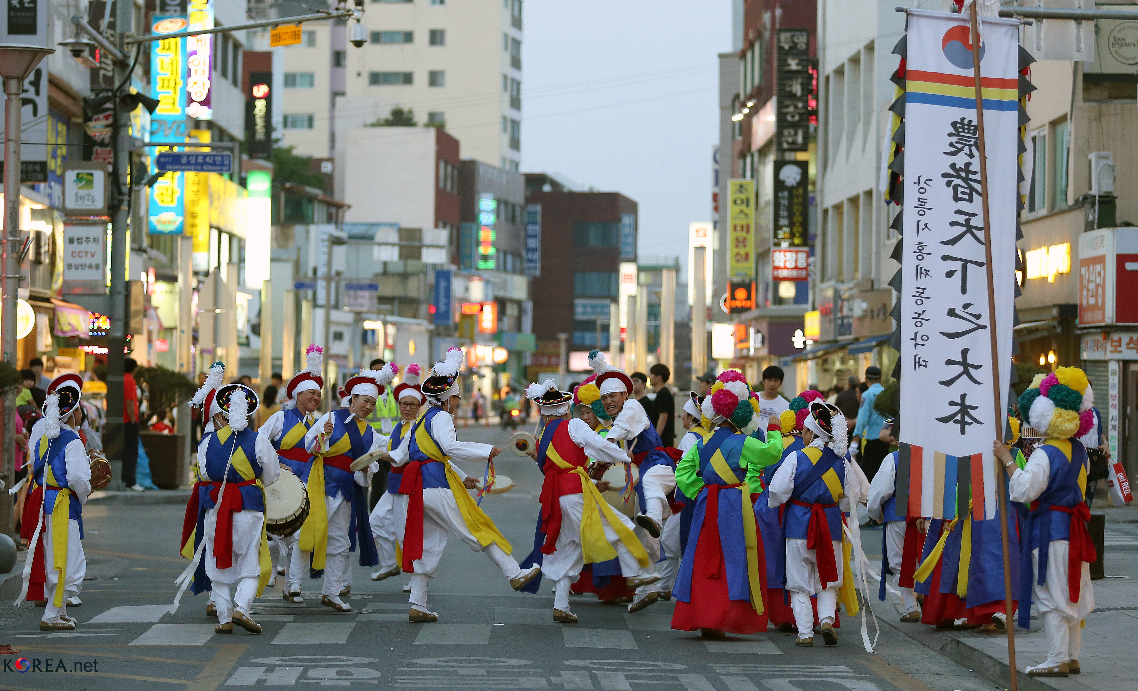 Exploring The UNESCO World Heritage in Korea 1st Program – ‘The Healing Festival Lasting 1,000 years’ Gangneung Danoje Festival & Jangneung(One of Royal Tombs of Joseon Dynasty) Gangneung Danoje Festival May 31, 2014 Gangneung-si, Gangwon-do Ministry of Culture, Sports and Tourism Korean Culture and Information Service ( Official Photographer: Jeon Han This official Republic of Korea photograph is licensed as free content, so while restrictions such as personality or privacy rights may apply, in general, manipulations are allowed. If you want a photograph without a watermark, you may ask via Flickr e-mail. 유네스코 세계문화유산 등재 유•무형 한국문화유산 심층탐방 첫 번째 프로그램 - ‘천년을 이어온 힐링 축제’ 강릉단오제와 장릉 강릉단오제 2014-05-31 강원도 강릉시 문화체육관광부 해외문화홍보원 코리아넷 전한